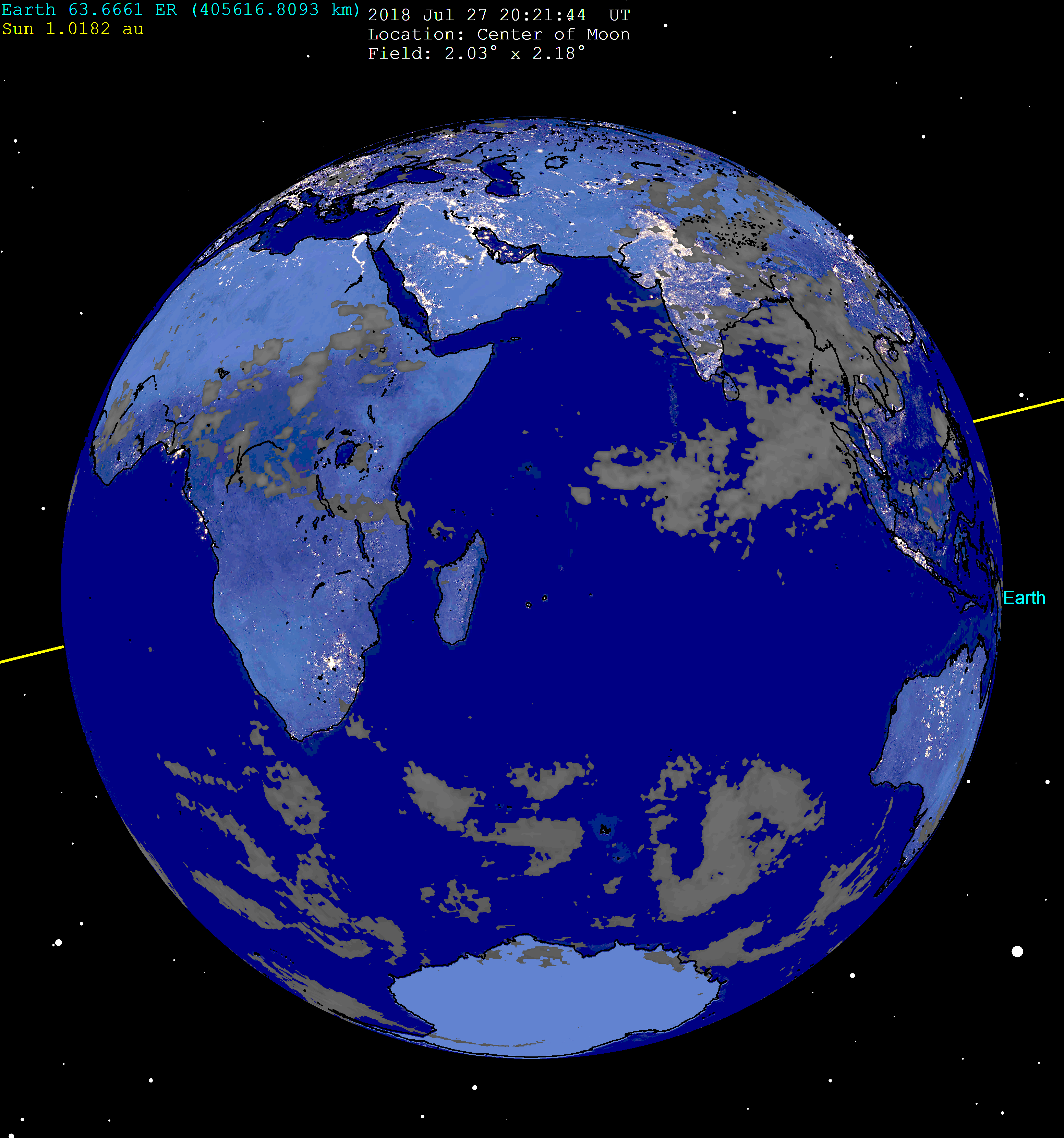 July 2018_lunar_eclipse view of earth The orientation of the earth as viewed from the center of the moon during greatest eclipse. thumb